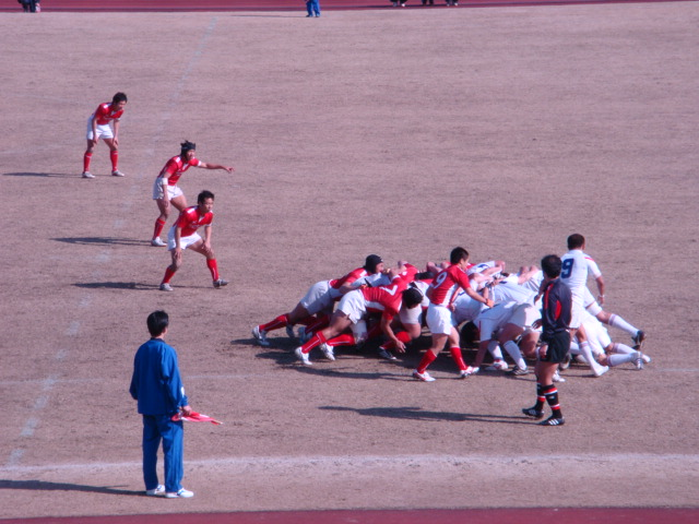 Tamariba club (red) vs. Mitaka Allcomers at Honjo stadium, Kitakyushu in the semi-final of the All-Japan Rugby Clubs Tournament